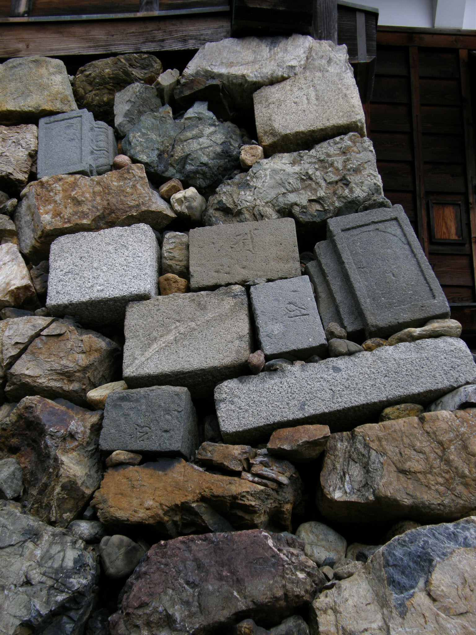 Tenyo-seki,Hukuchiyama-jo